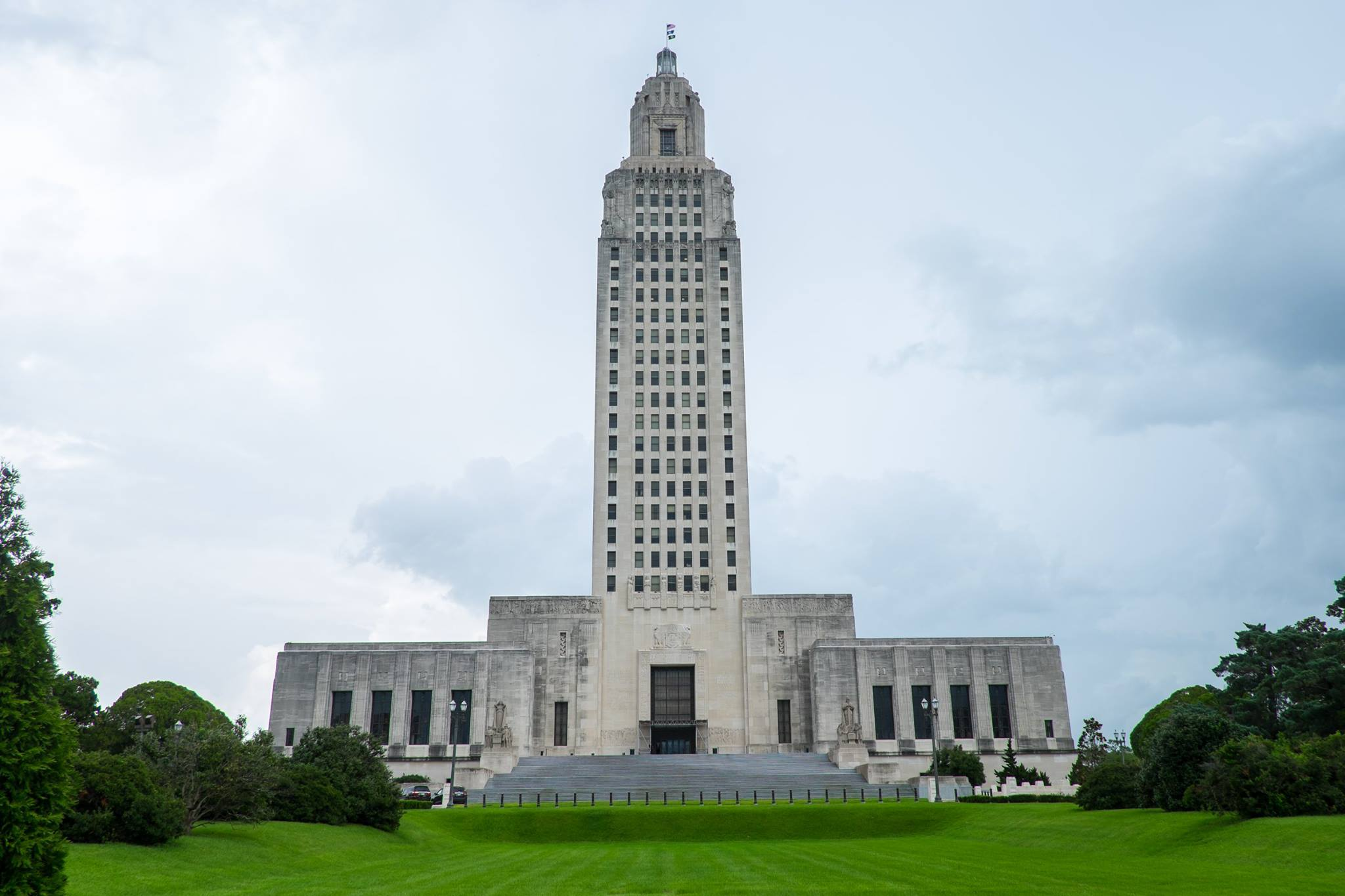 The Capitol Building in Baton Rouge, Louisiana.